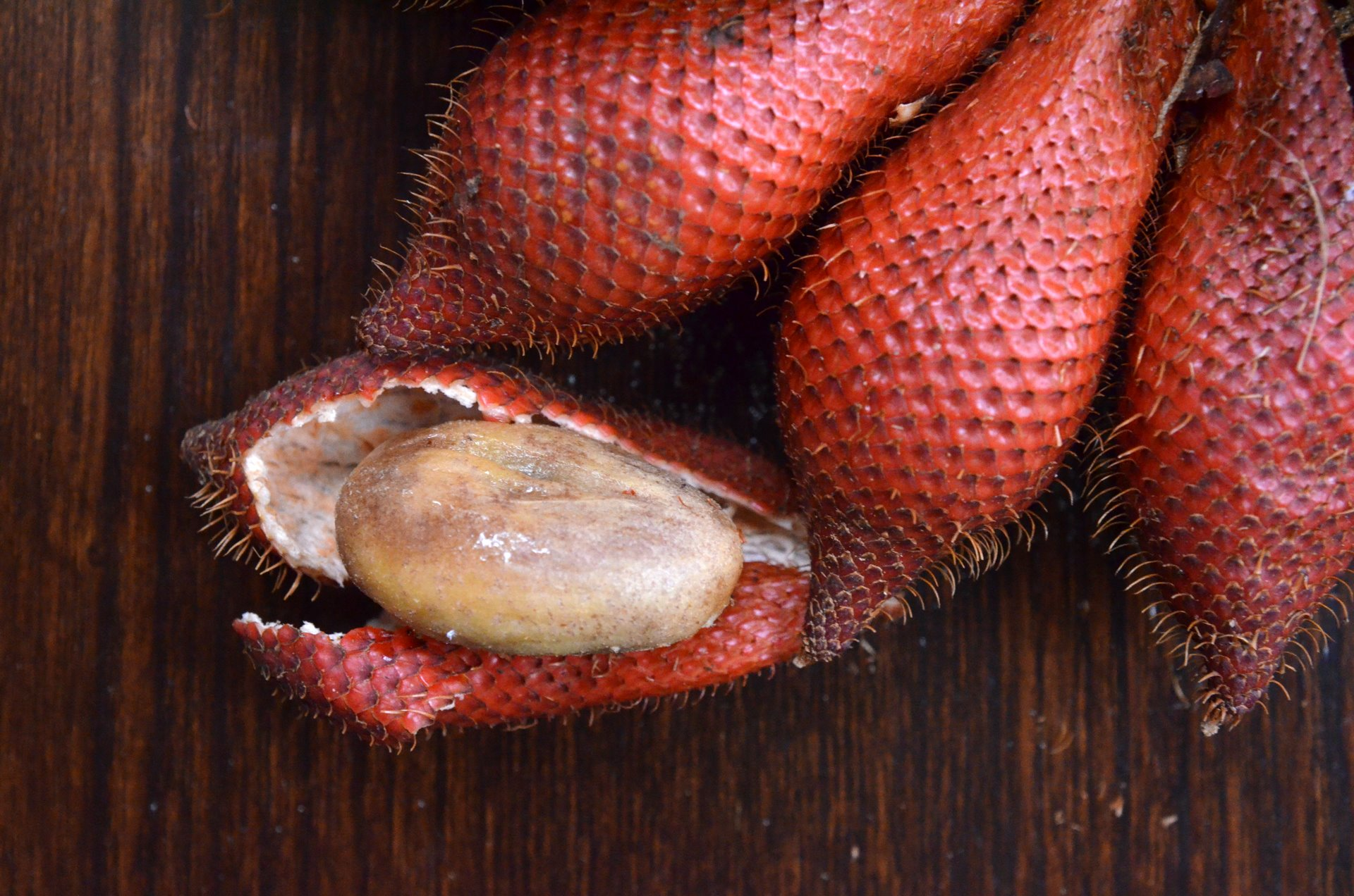 Luk sala (Thai script: ลูกสละ) is the Thai name for the fruit of a type of Salak Palm; it is sometimes also called "snakefruit". The taste of the fruit is somewhat musty, and somewhere in between dried bananas, jackfruit, and preserved dates. Luk rakam (Thai script: ลูกระกำ) is the fruit of another type of Salak Palm. It tends to be more rounded in shape compared to the luk sala. The taste of the luk rakam is also more watery.